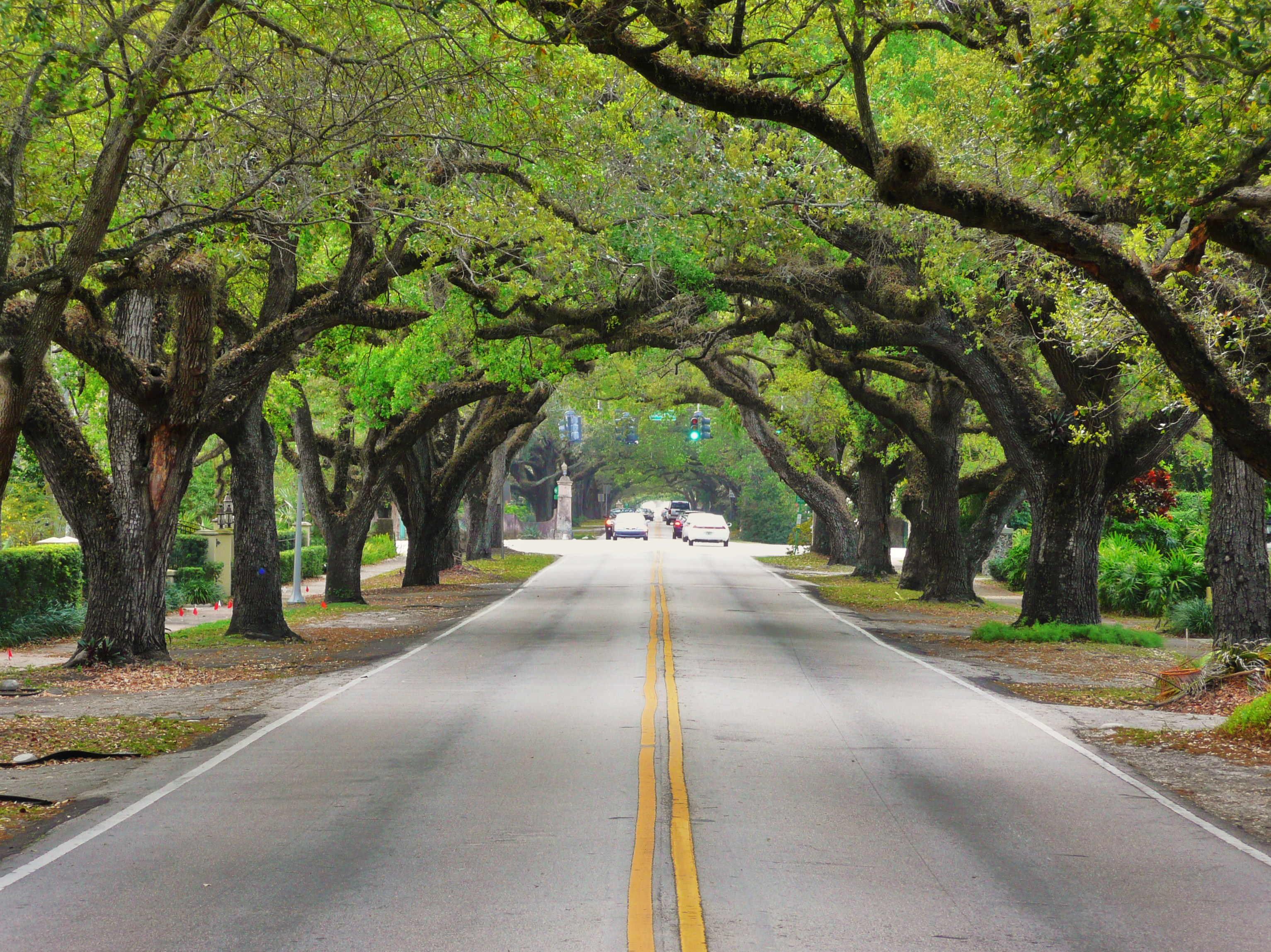 Digital photo taken by Marc Averette. Coral Way in Coral Gables, Florida, United States.